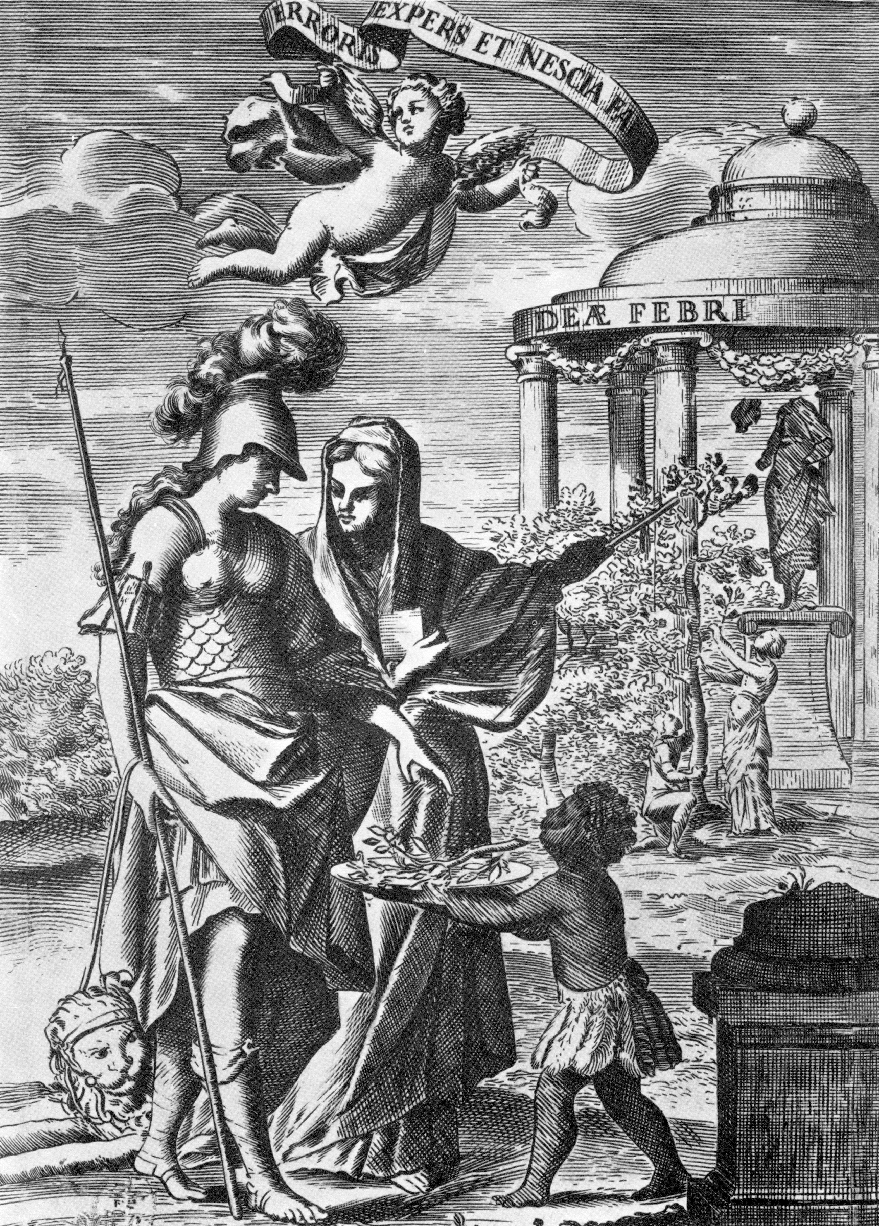 The scan of a printed reproduction of an engraving. The caption (not included here) under the printed picture reads: "Peru offers a branch of cinchona to Science (from a 17th century engraving)". Cinchona genus is the source of Peruvian bark, an important historical remedy against malaria.